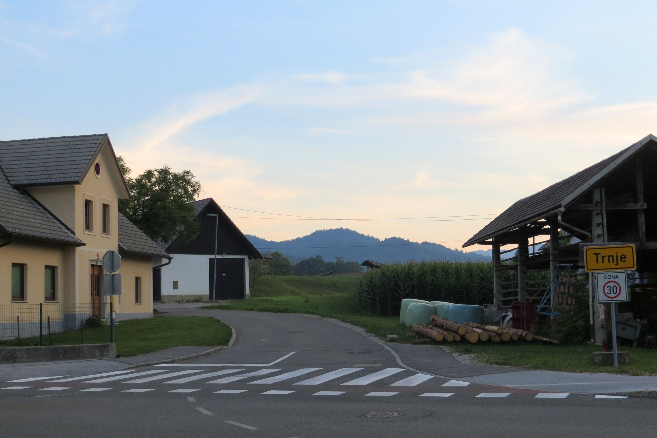 Trnje, Municipality of Škofja Loka, Slovenia